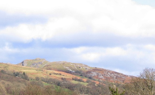 The Sleeping Giant. Cribarth viewed from the A4067 at SN804120. From this angle the hill resembles the left profile of the head and chest of a man on his back - hence "Sleeping Giant".